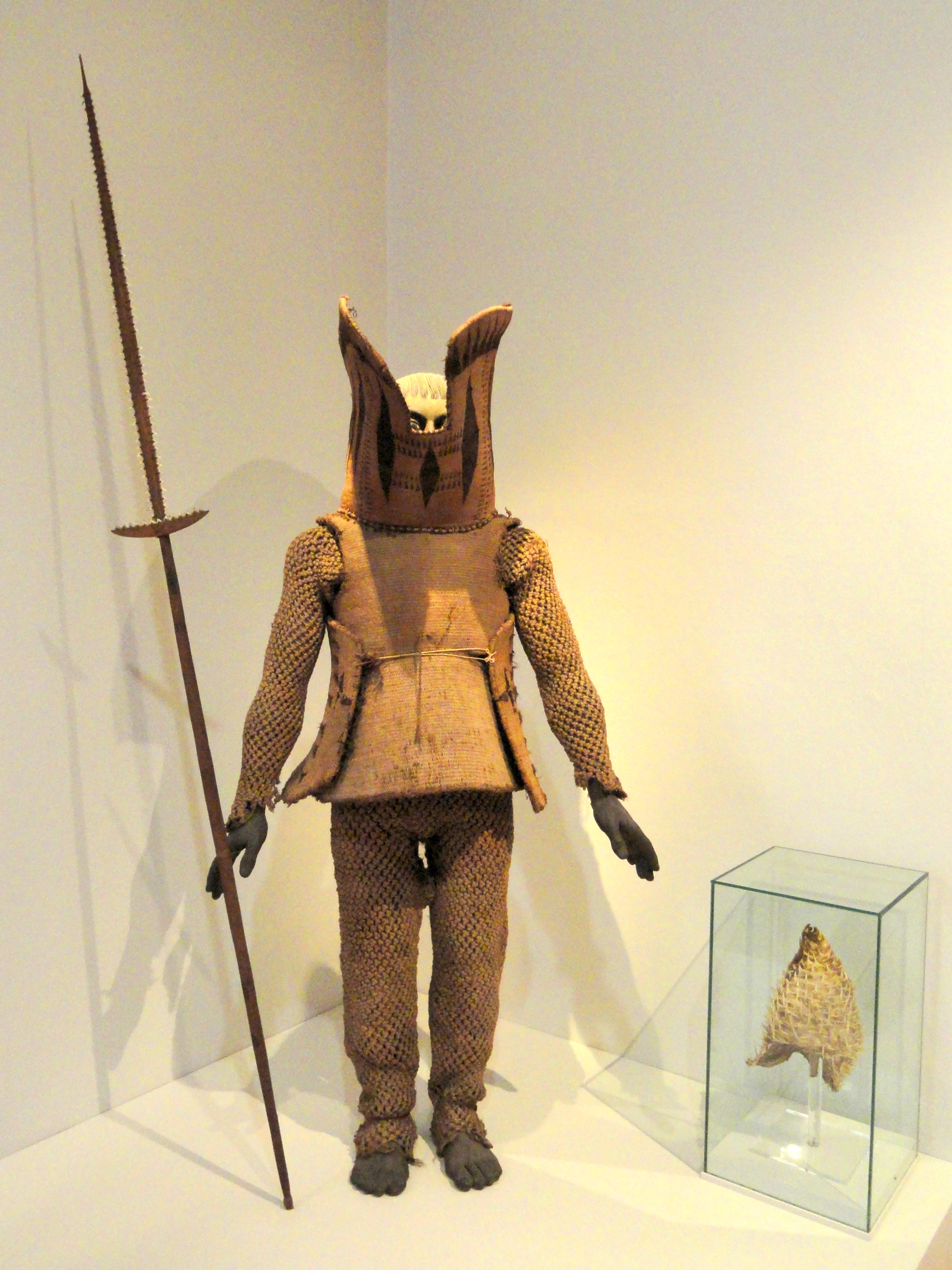 Exhibit in the Oceanic collection of the Staatlichen Museums für Völkerkunde München, Maximilianstraße 42, Munich, Germany. Warrior suit, Nauru, 1891.